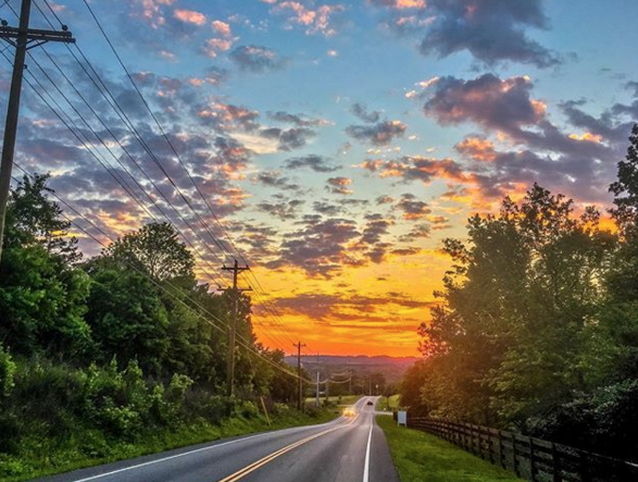 A beautiful colorful sunset observed from Long Lane in SouthEast Franklin,TN.